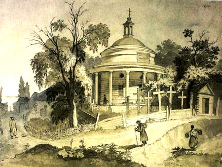 Grave of Ascold in Kiev